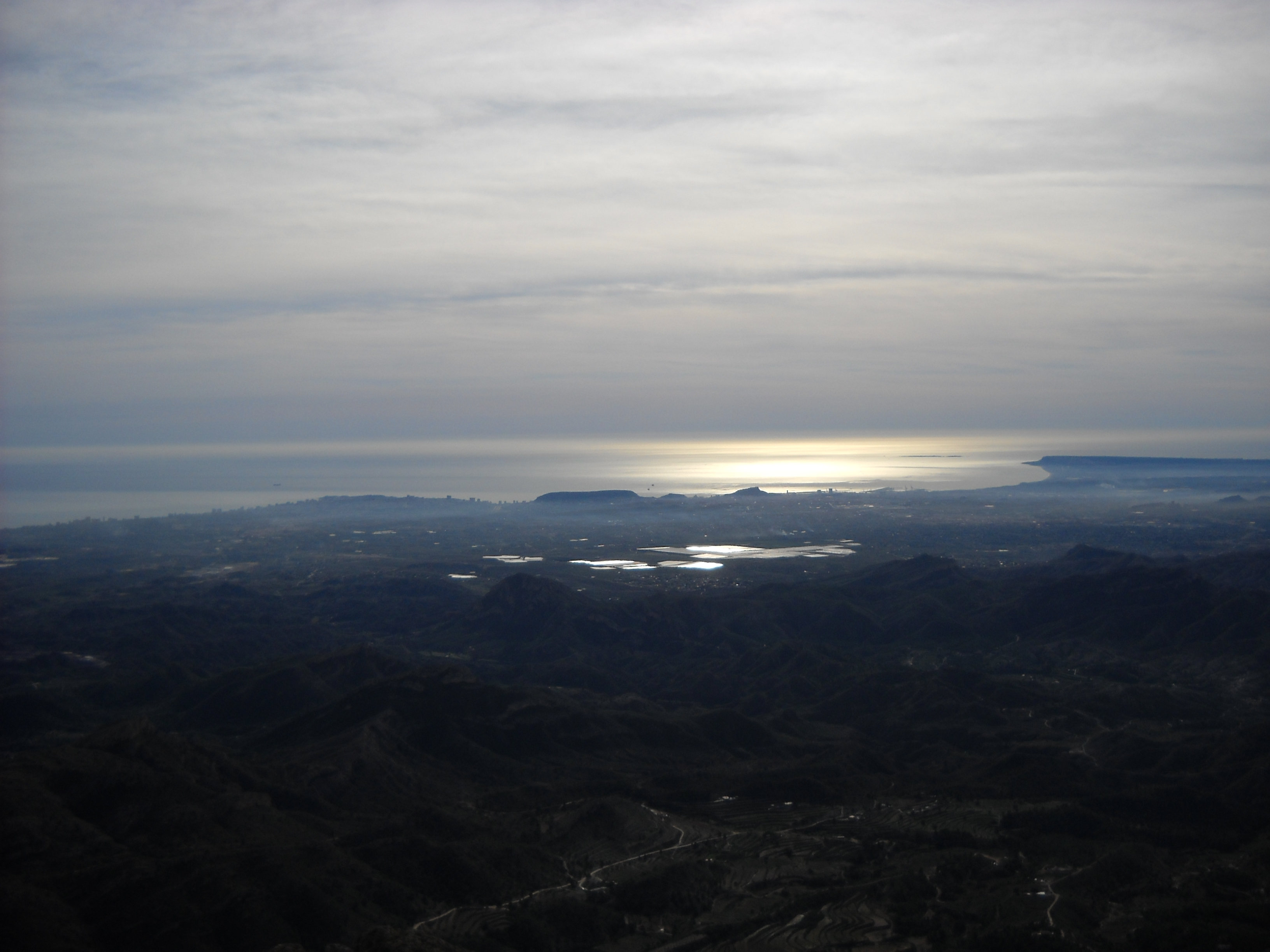 View of the Bay of Alicante from the Rock Migjorn Jijona (Valencian Community, Spain)